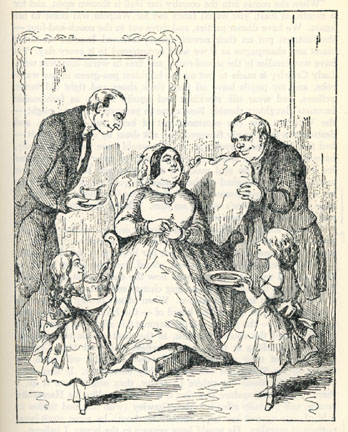 Illustration to chapter 11 of Vanity Fair by William Makepeace Thackeray